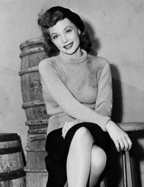 Publicity photo of Lilli Palmer